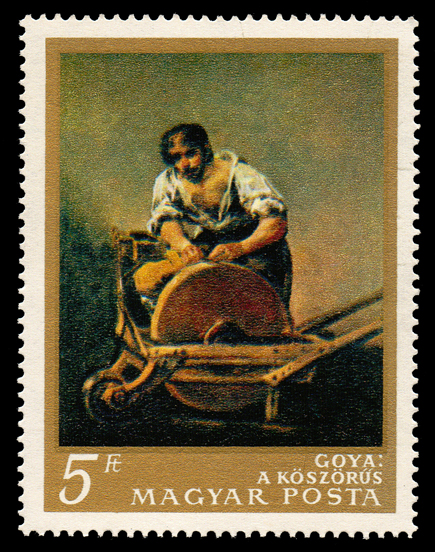 Paintings - The Knife Grinder Denomination: 5 Forint